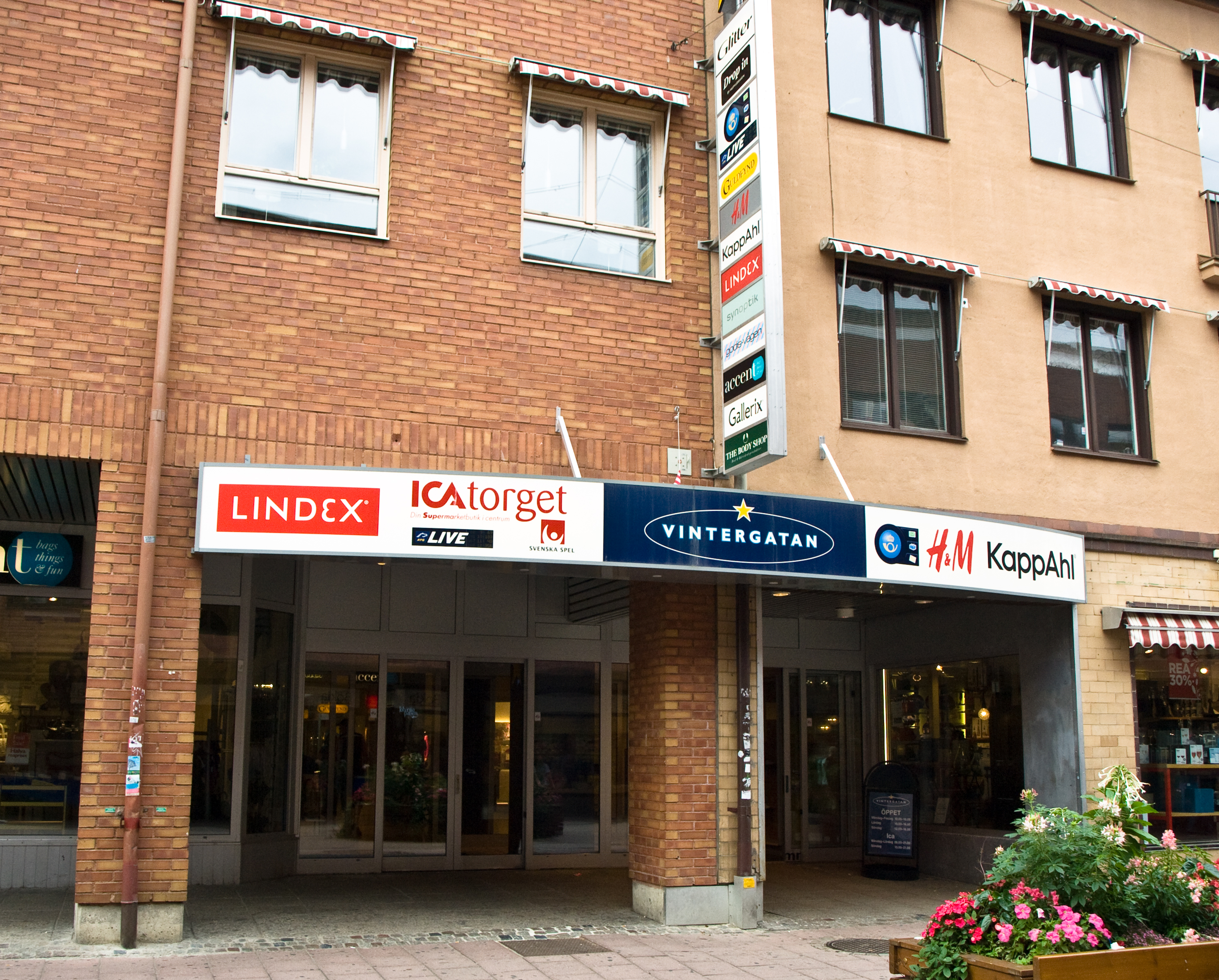 The shopping mall Vintergatan, in Skellefteå, Sweden.